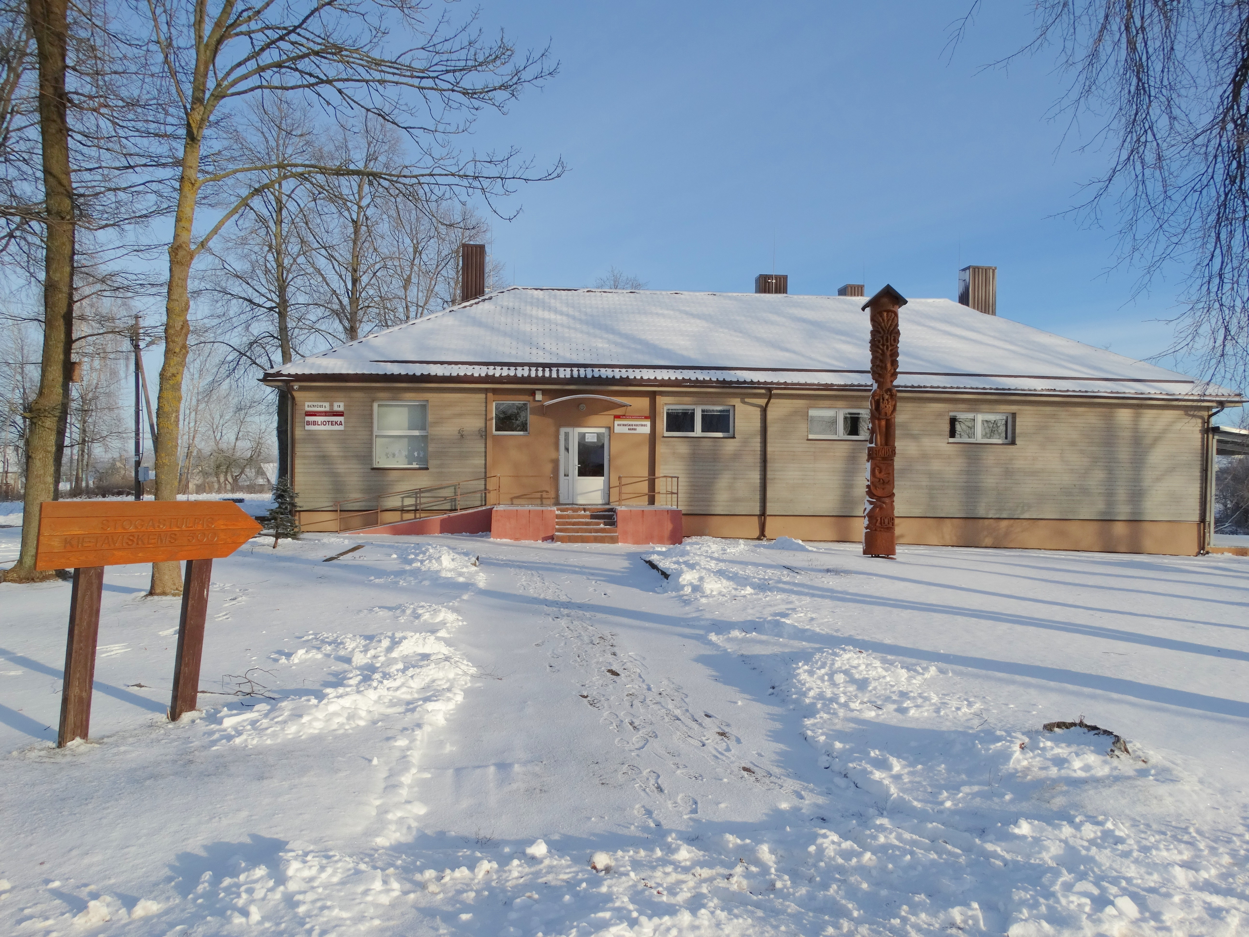 Centre of culture, Kietaviškės, Elektrėnai Municipality, Lithuania